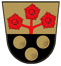 Coat of Arms of Lenting